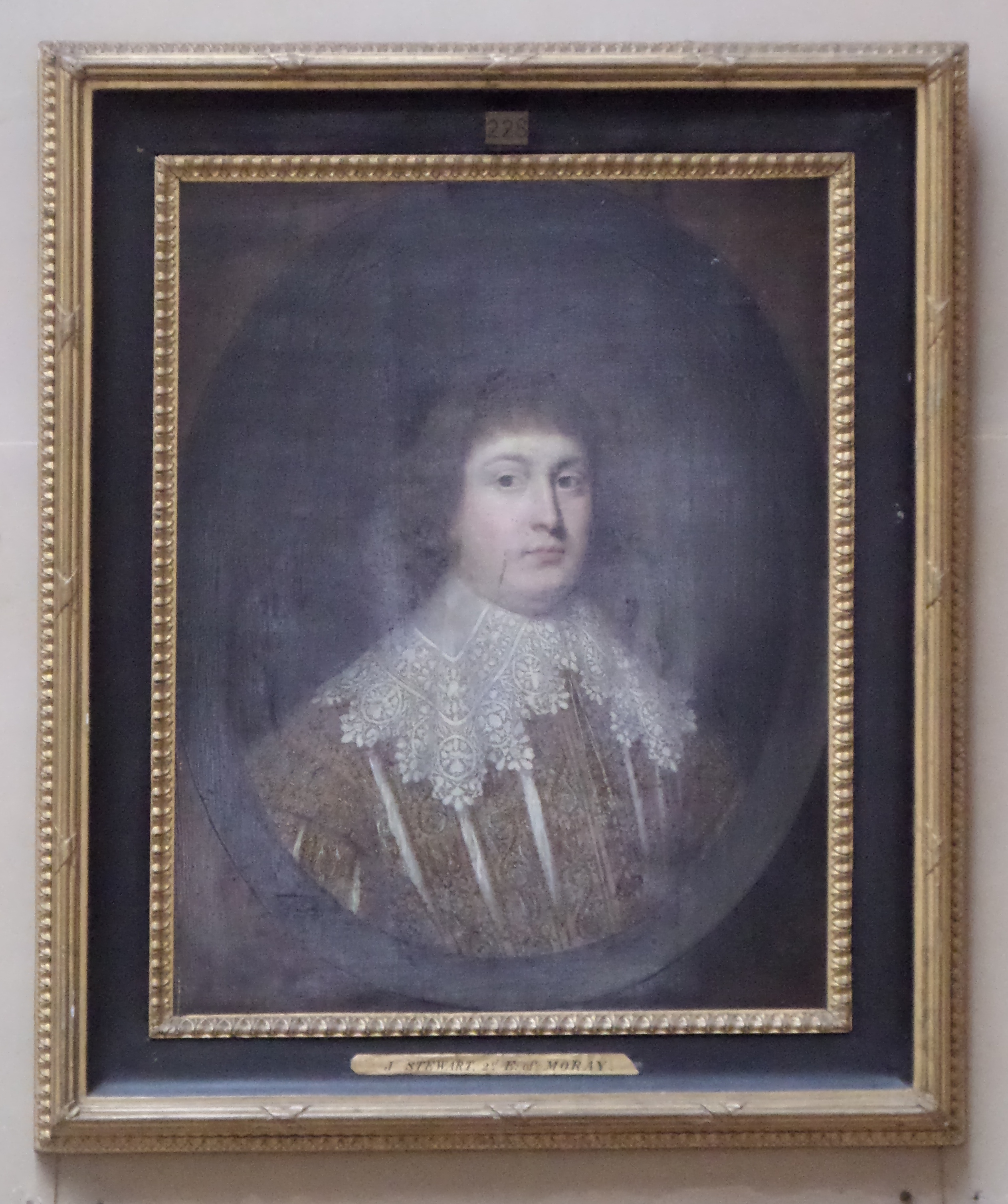 James Stewart, 2nd Earl of Moray (c. 1565 – 7 February 1591/2). A Scottish nobleman, who was murdered by George Gordon, Earl of Huntly, as the culmination of a vendetta. Known as "the Bonnie Earl" for his good looks. Painting, possibly a copy, displayed in Dunrobin Castle in Sutherland, Scotland.